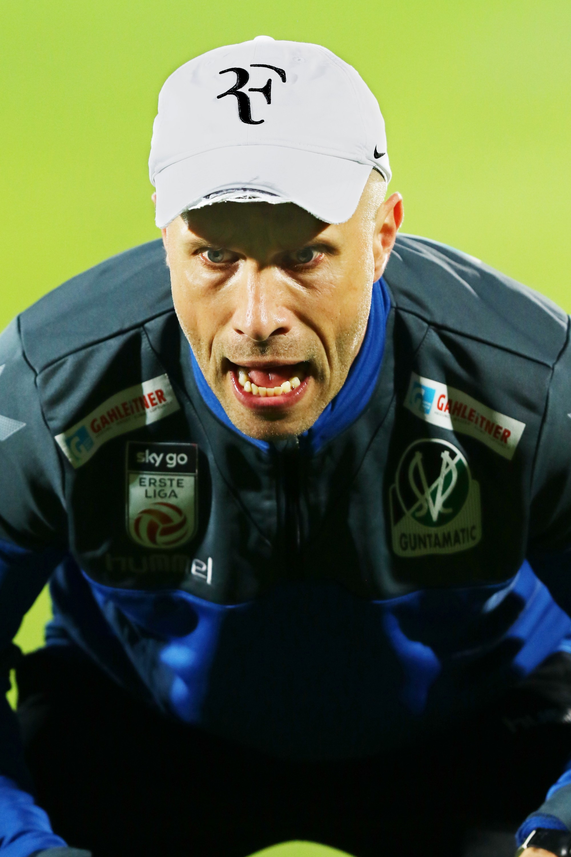 Football-championship Erste Liga 2017–18 - SC Wiener Neustadt (white shirts) vs. SV Ried (red shirts) 1-0. – The photo shows the athletik coach of SV Ried Tamás Tiefenbach.